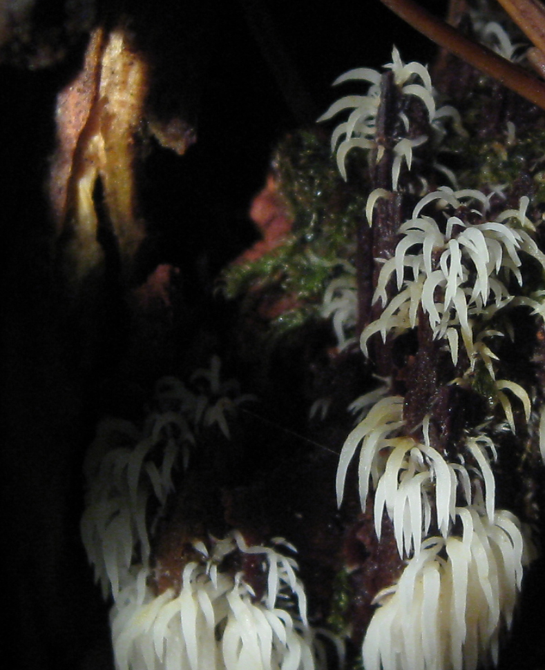 Mucronella Fr. Image location: Portland, Oregon, USA Same stump as observation 153774 Recognized by sight For more information about this, see the observation page at Mushroom Observer.